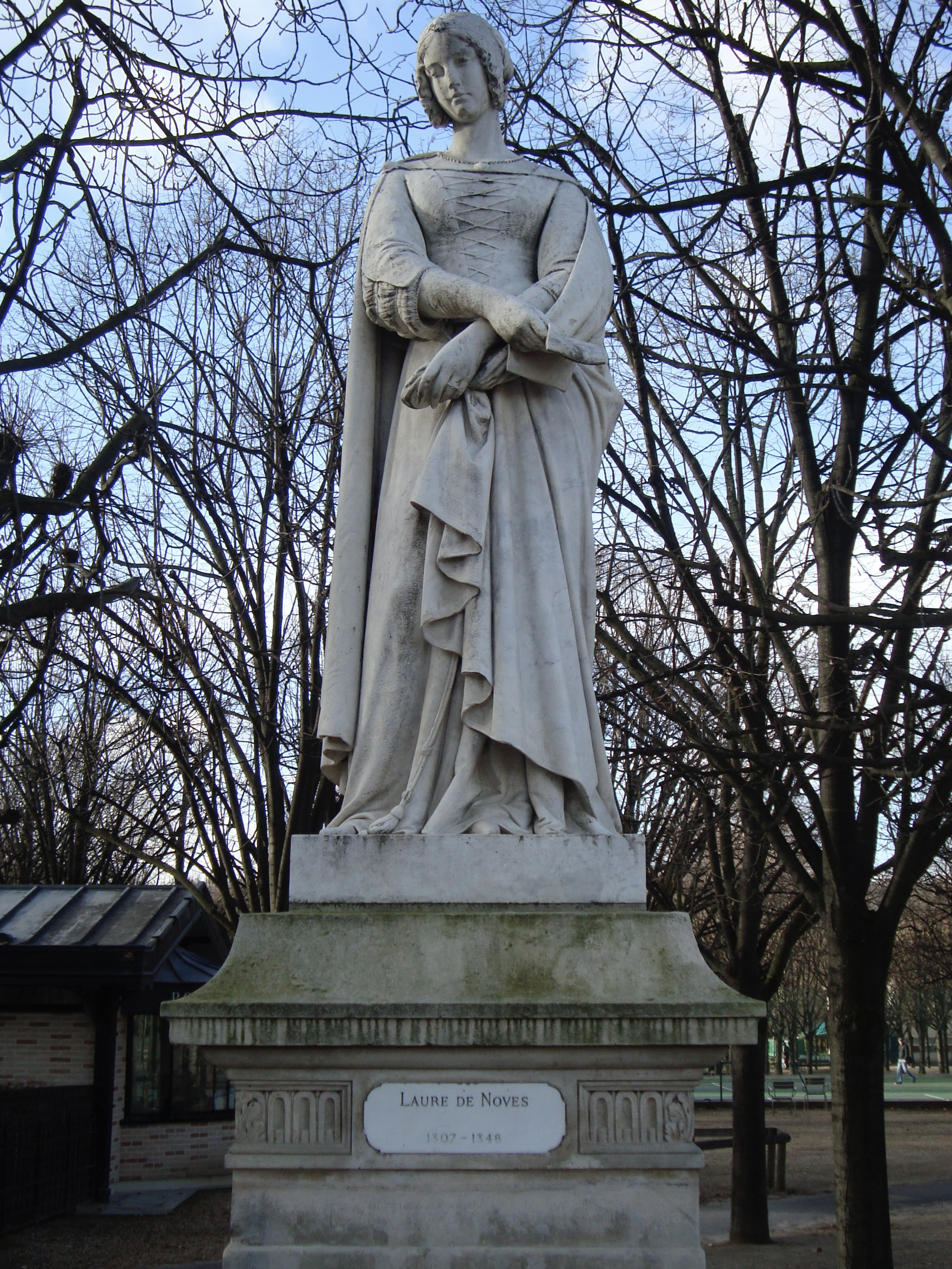 Statue of Laure de Noves in the Jardin du Luxembourg, Paris